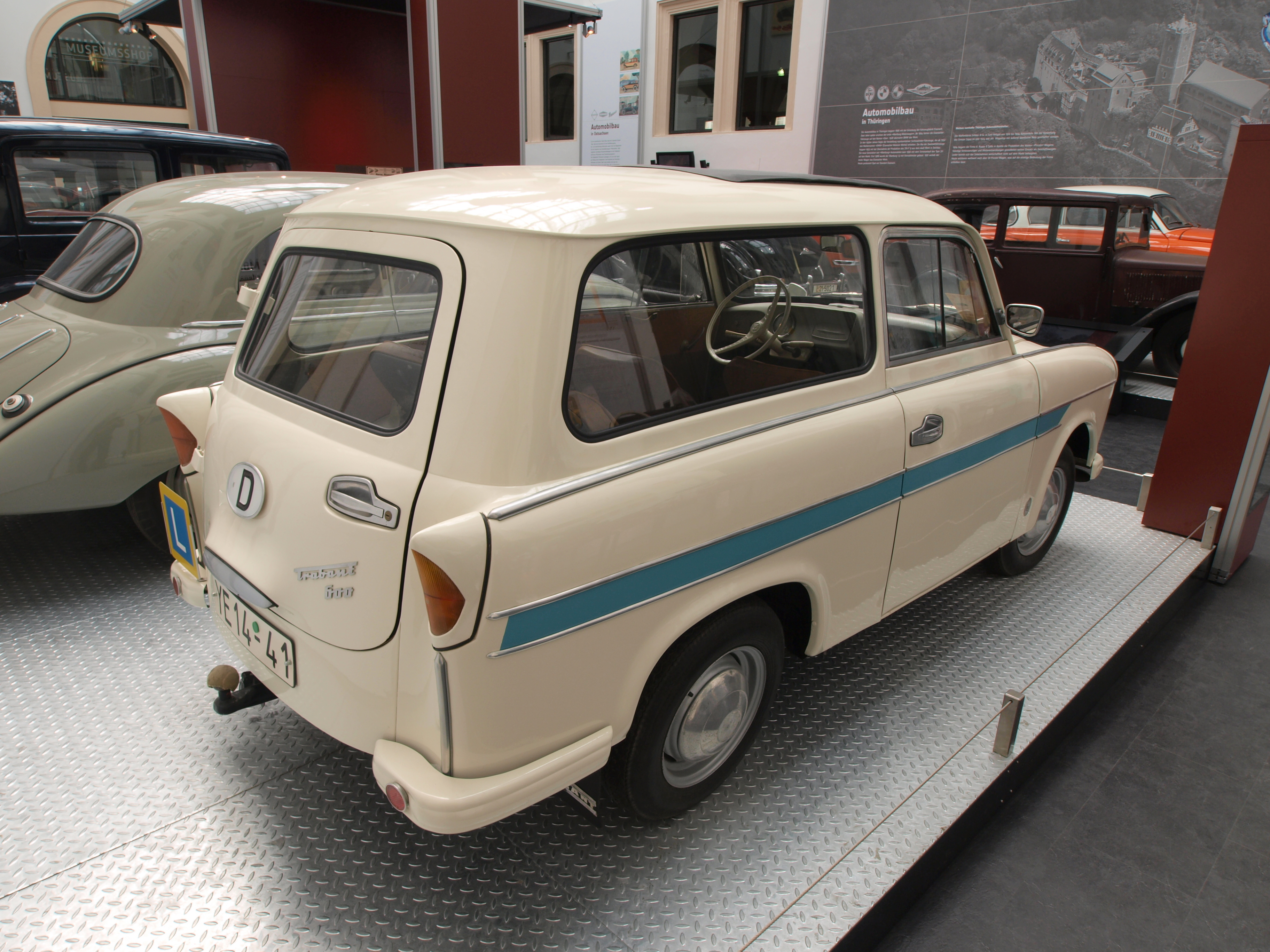 Photo taken without a tripod (was not permitted!) 1964 VEB Trabant P 60 Kombi de Luxe